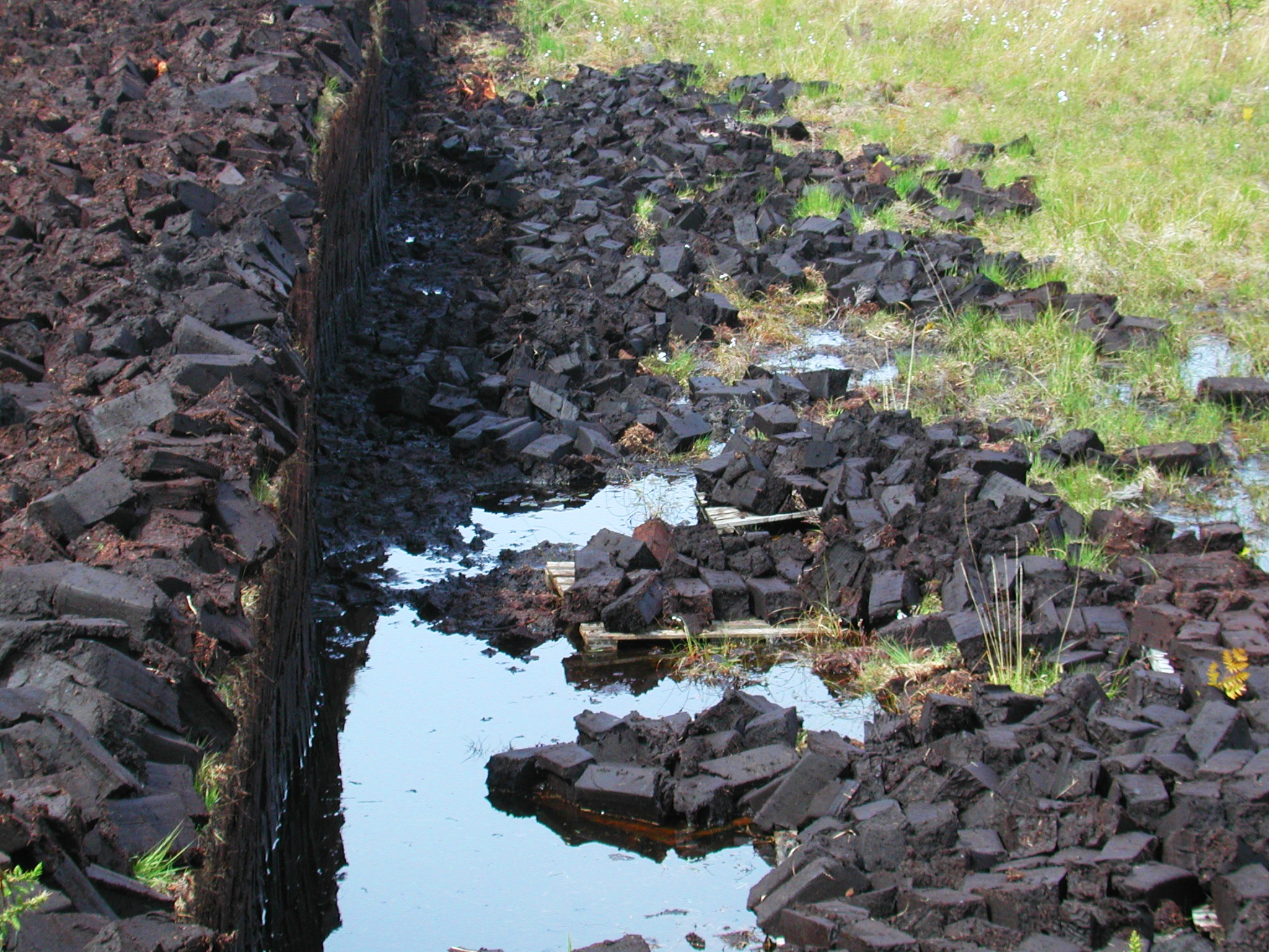 Peat Bog